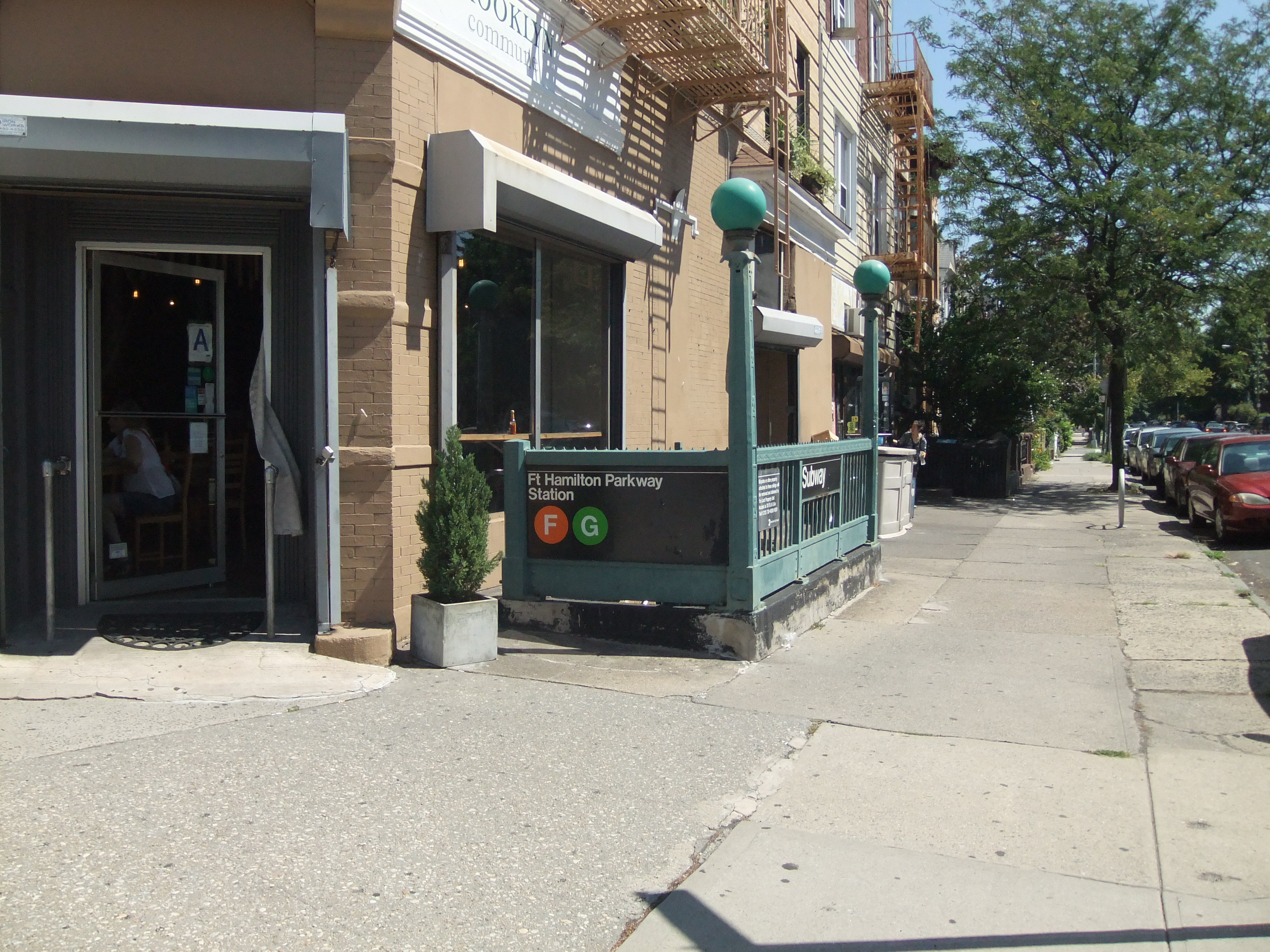 Ft Hamilton Pkwy (Culver) NE Stair